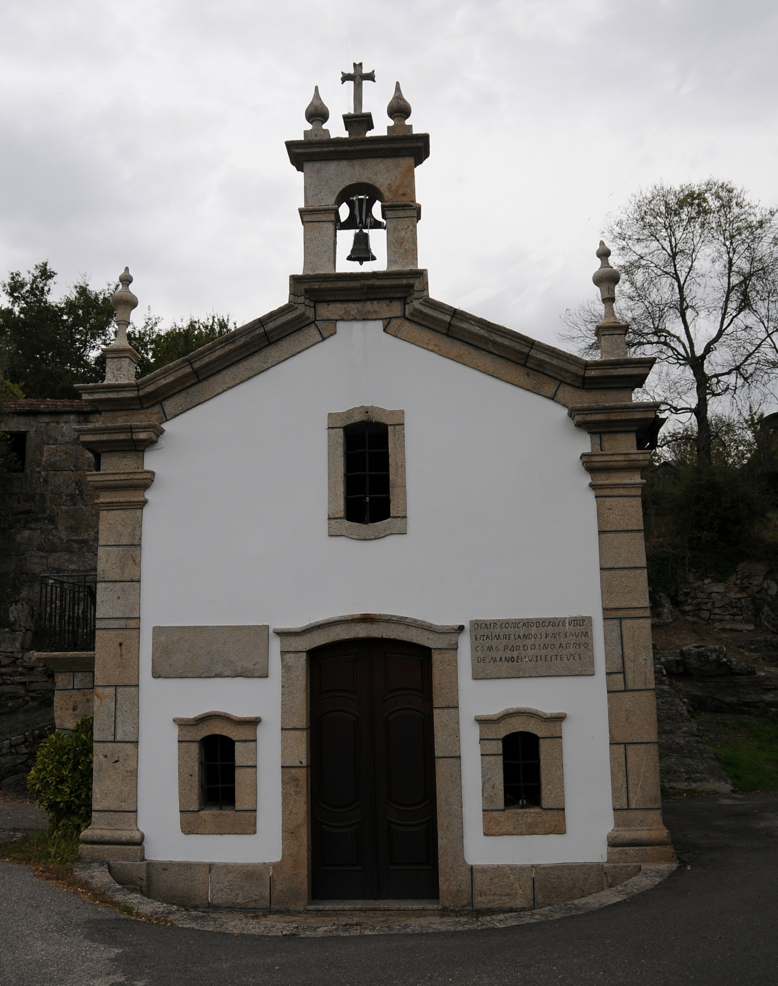 Tangil Church, in Tangil, Monção, Portugal